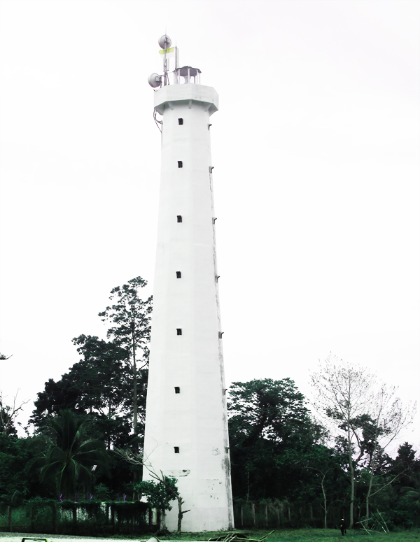 Lighthouse at the border of Republic of Indonesia and Papua New Guinea